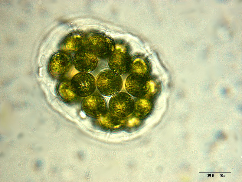 Pandorina sp.